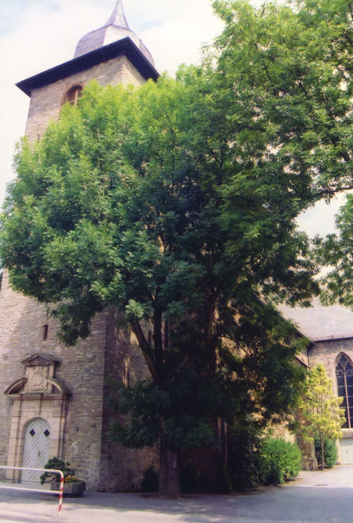 St. Peter & Paul church in Hemer, Germany. Built 1697-1700 in baroque style by Jobst Edmund von Brabeck, the bishop of Hildesheim, who owned the manor Haus Hemer right next to the church. Photo taken on August 15 2004 by User:Ahoerstemeier.